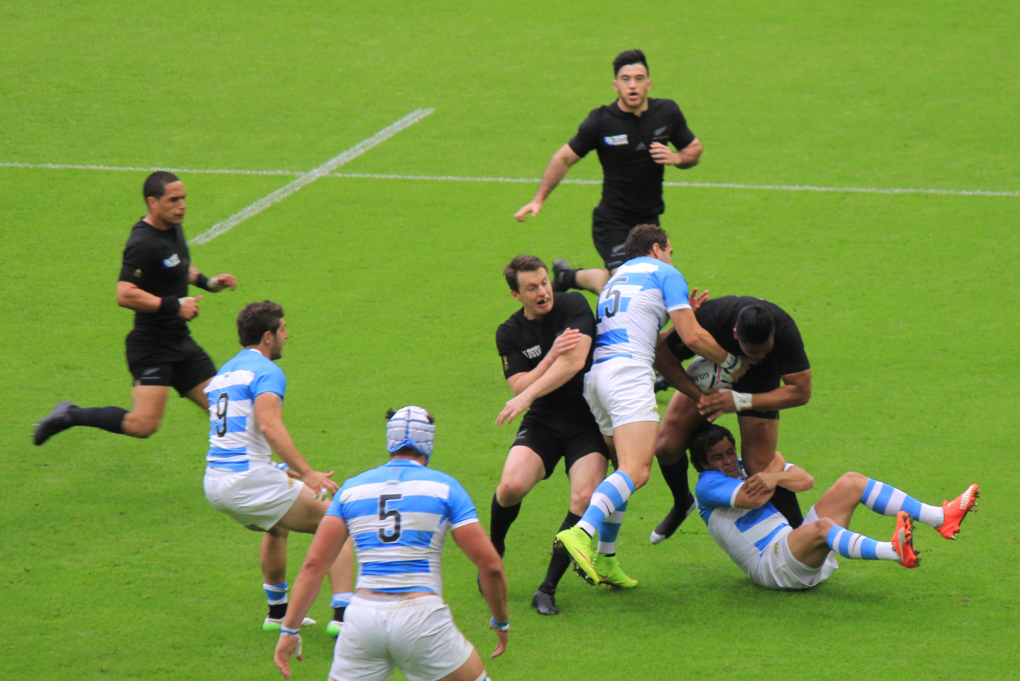 15-09 RWC New Zealand vs Argentina 036